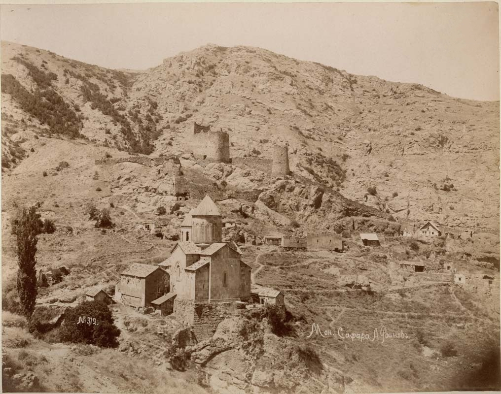 Sapara monastery.